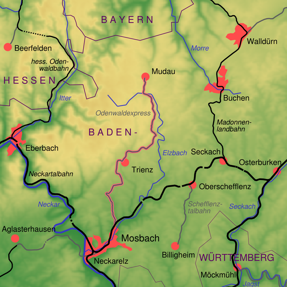 map of Odenwaldexpress. please see User:Kjunix/BahnNWB for comments.